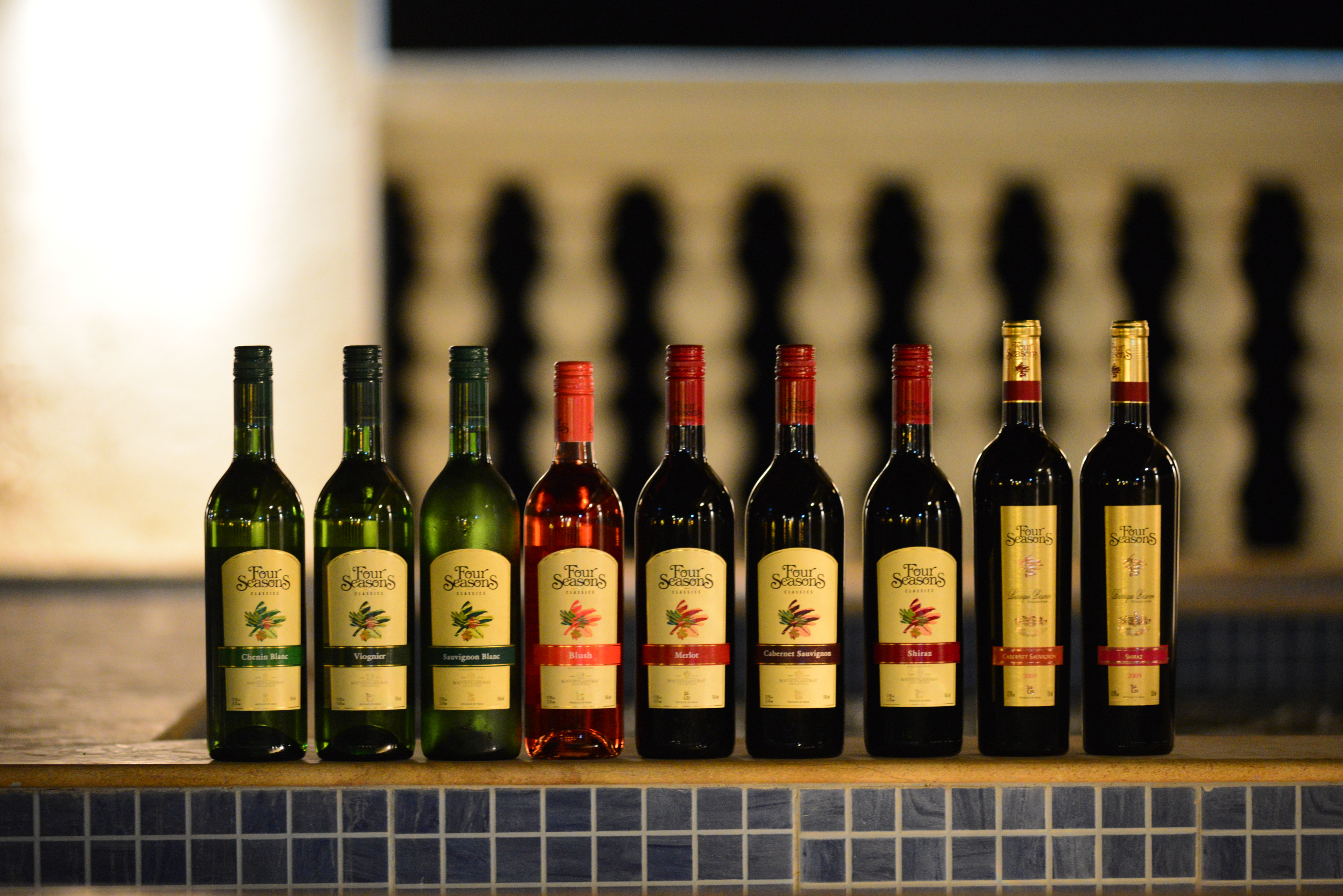 Four Seasons Wines Bottles